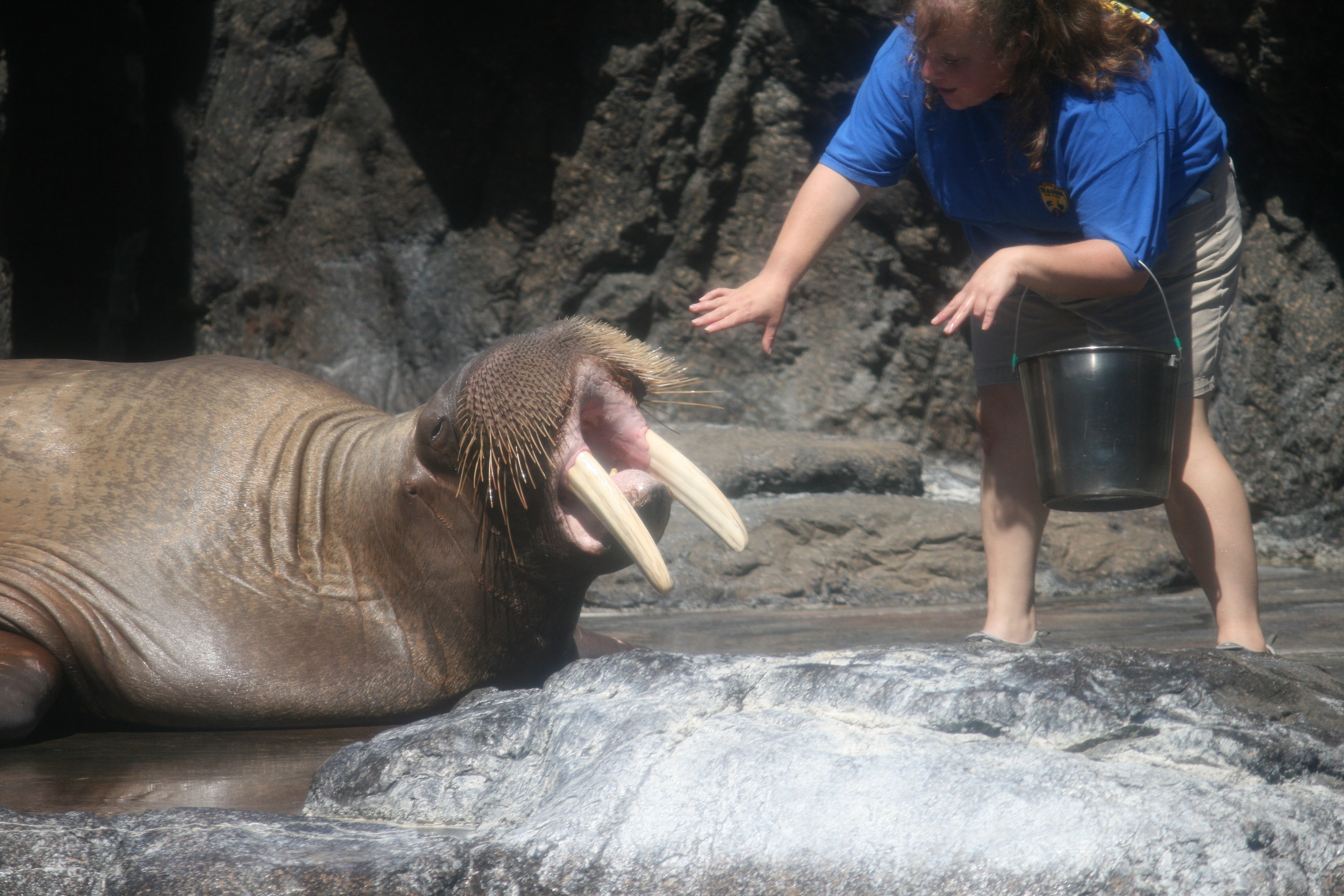 Sivuqaq / Jocko the walrus, at Vallejo, CA, US Original sourceː